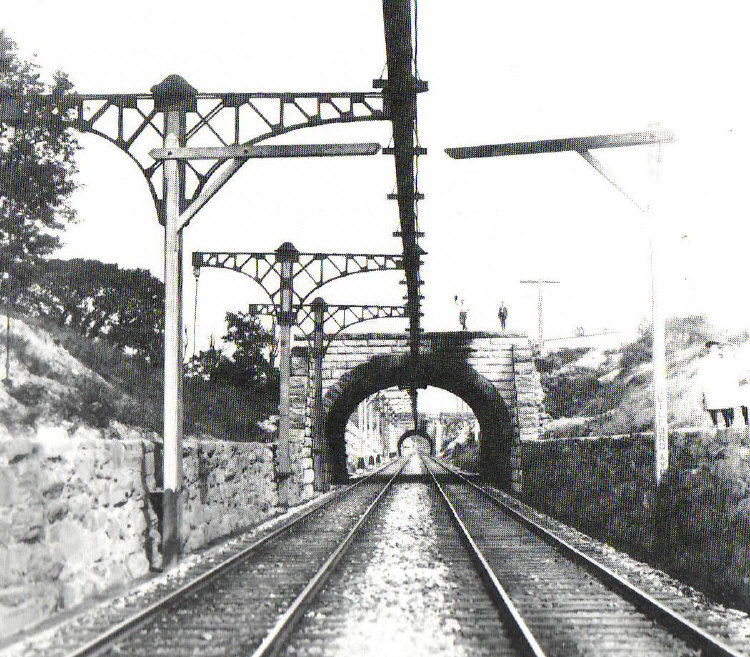 Original overhead third-rail system on the Baltimore Belt Line of the Baltimore and Ohio Railroad, part of the first mainline railroad electrification in 1895. Photo from 1901.